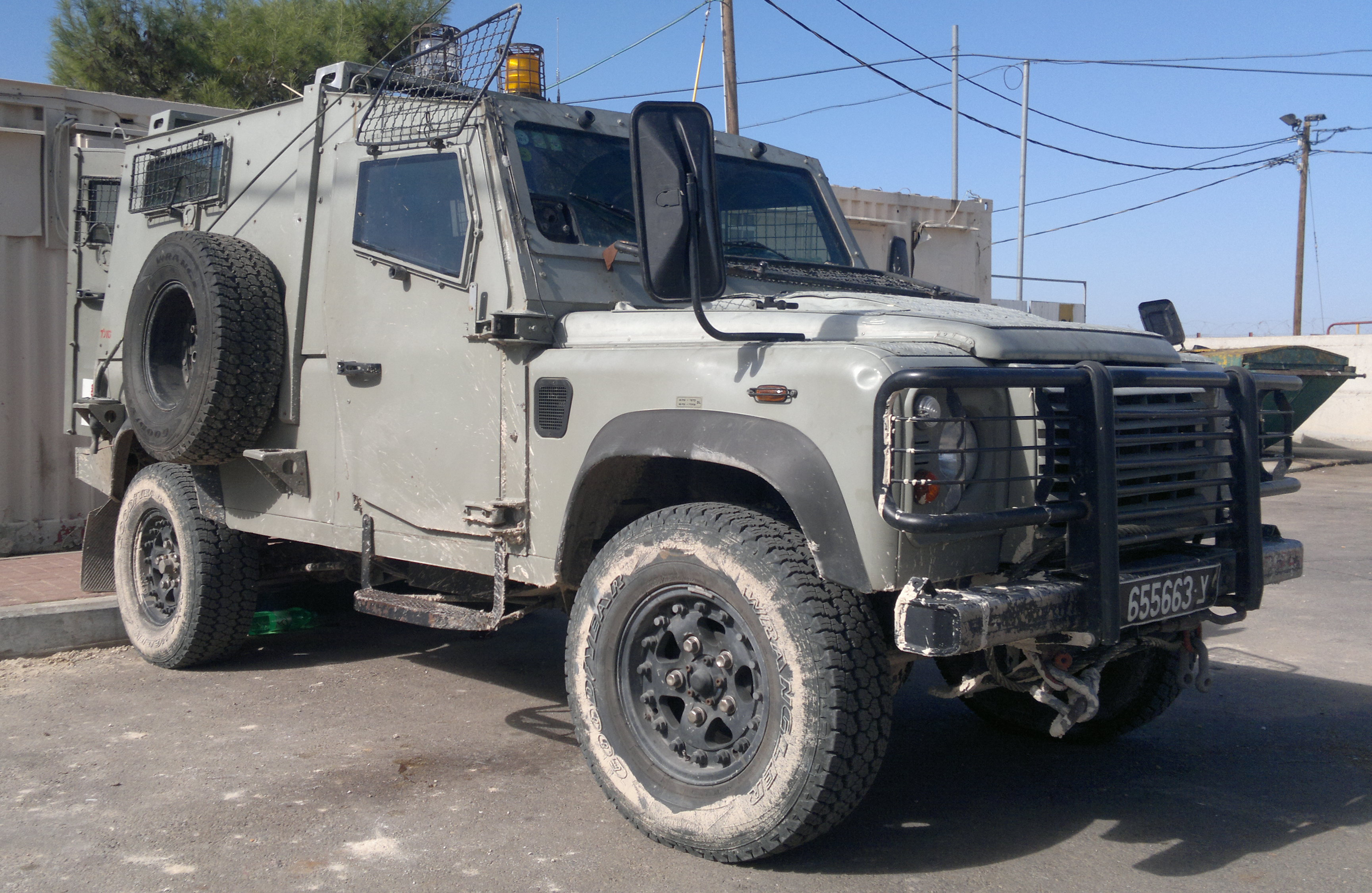 The IDF selected the British Land-Rover Defender, up-armored by the Arotech subsidiary MDT for a replacement of the Israeli based Automotive Industries Storm (Sufa) vehicles.